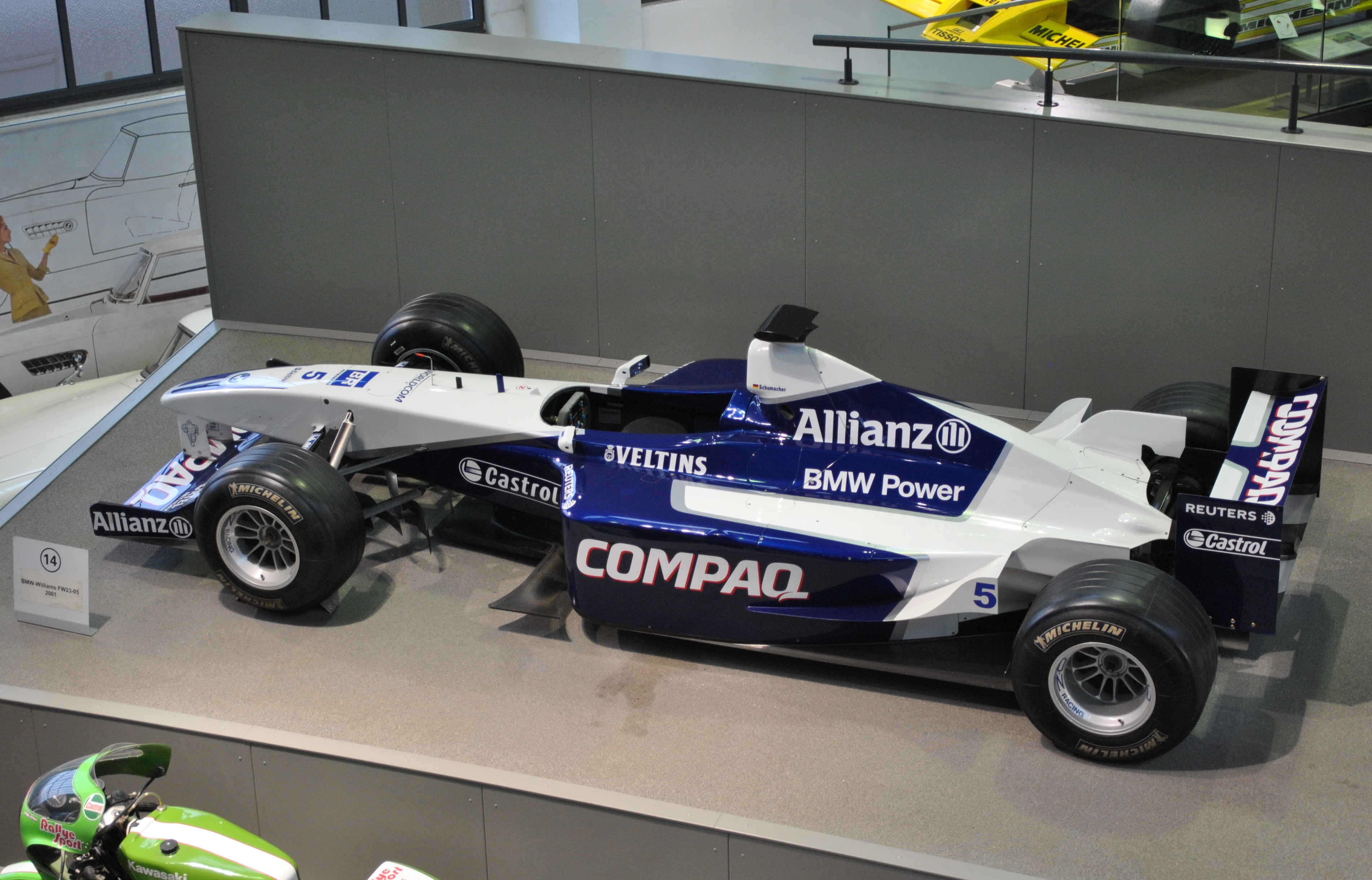 WilliamsF1 BMW FW23-05 Formula One car, Collection BMW Group Classic, Munich